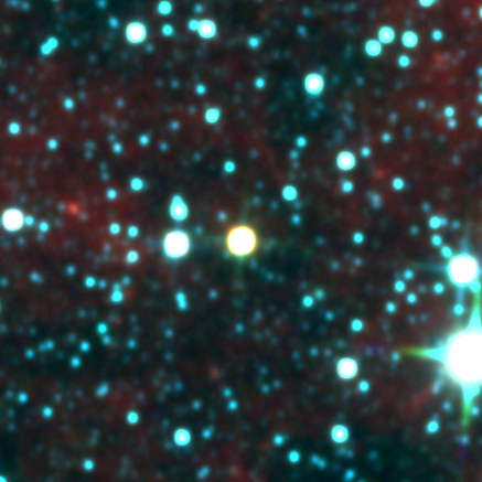 A multi-color WISE image centered on the binary brown dwarf WISE 1049-5319. The binary appears as a yellow disk — the individual brown dwarfs are not resolved.